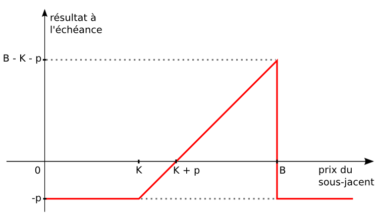 Pay off of a knock-out call - french version